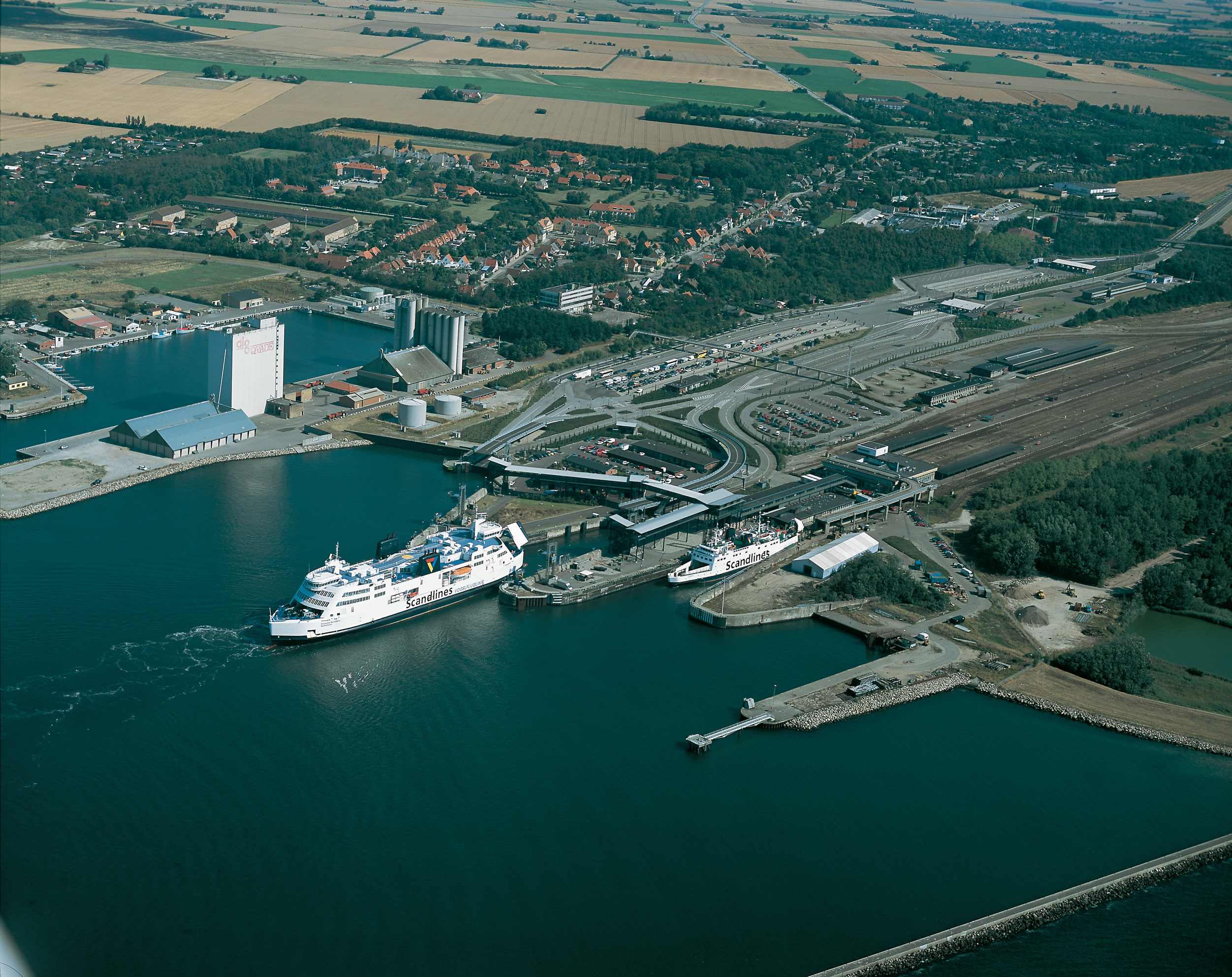 Ferry terminals of Rødbyhavn